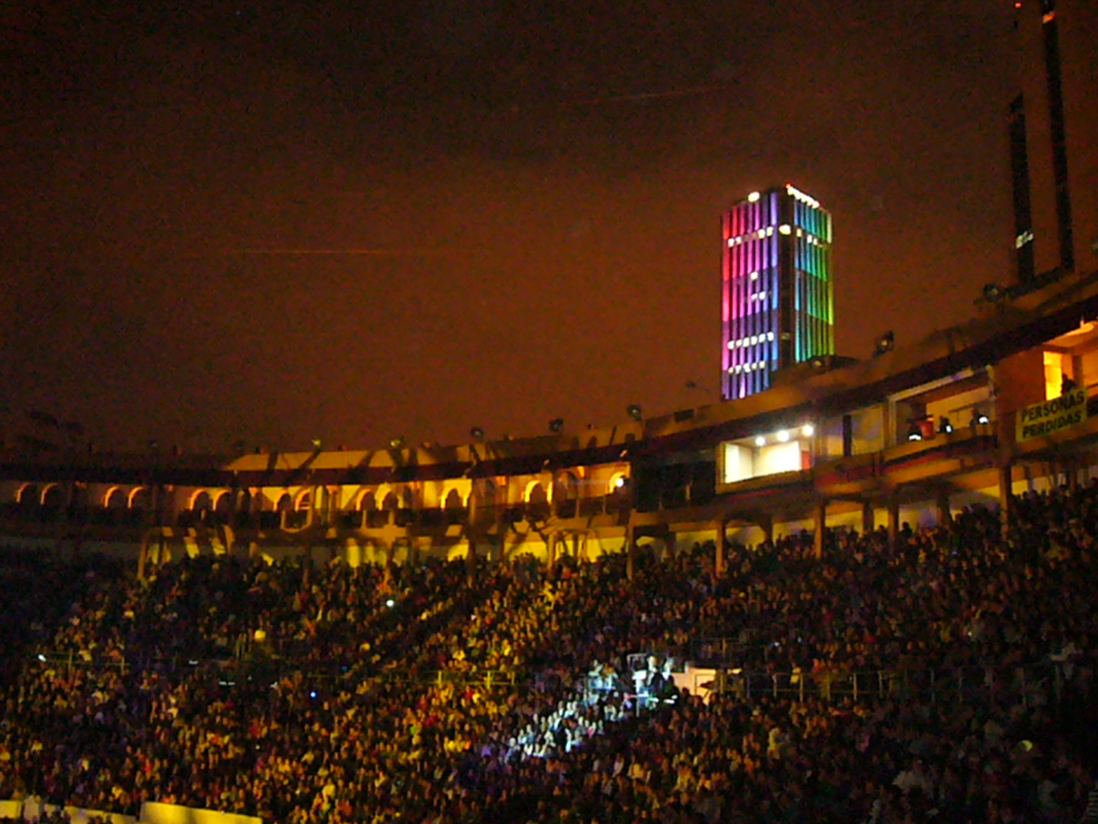 From the bull square. The tallest building in Colombia color lighted.